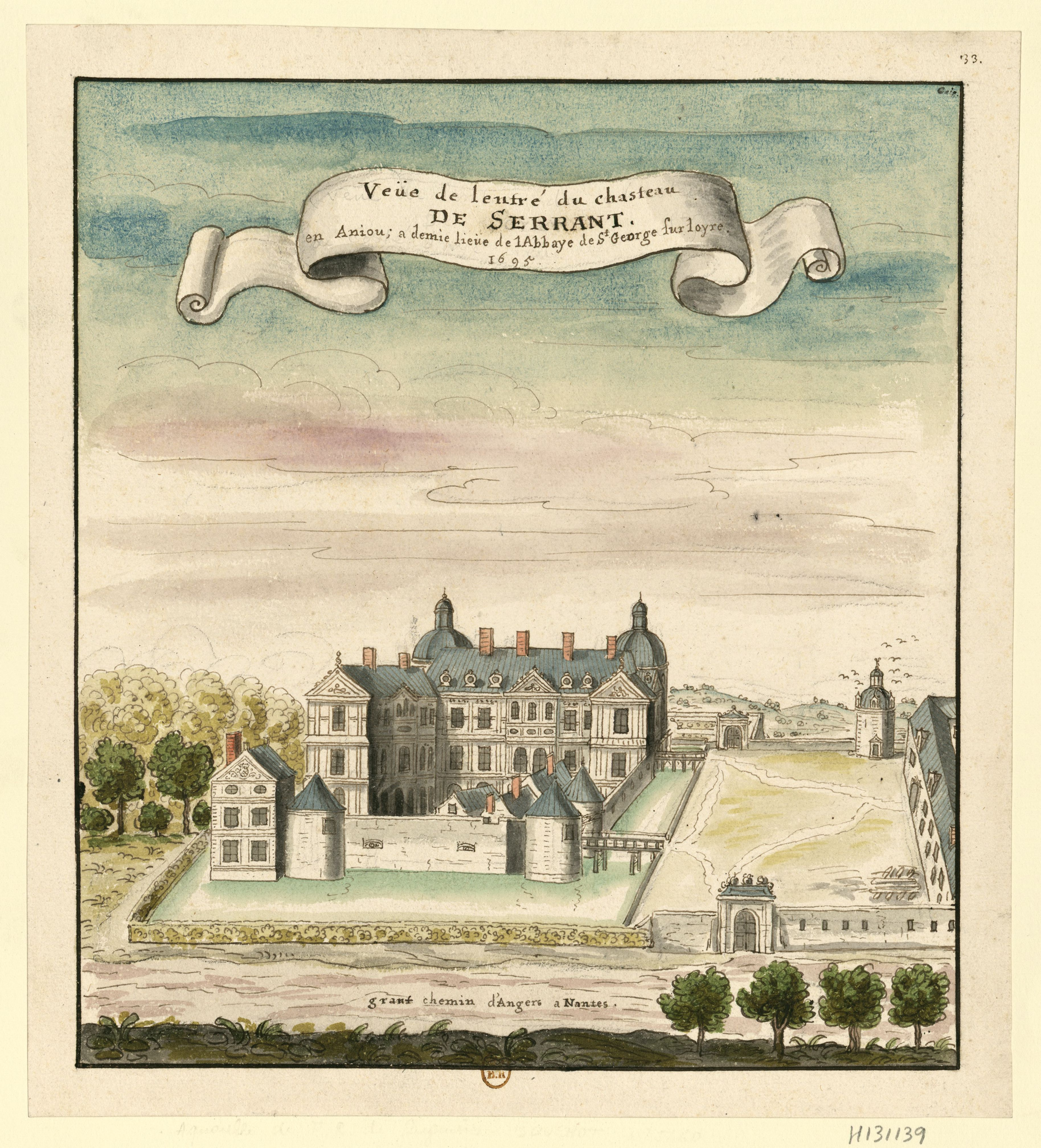 Entrance side of the Château de Serrant, purchased in 1636 by Guillaume Bautru, who enlarged it